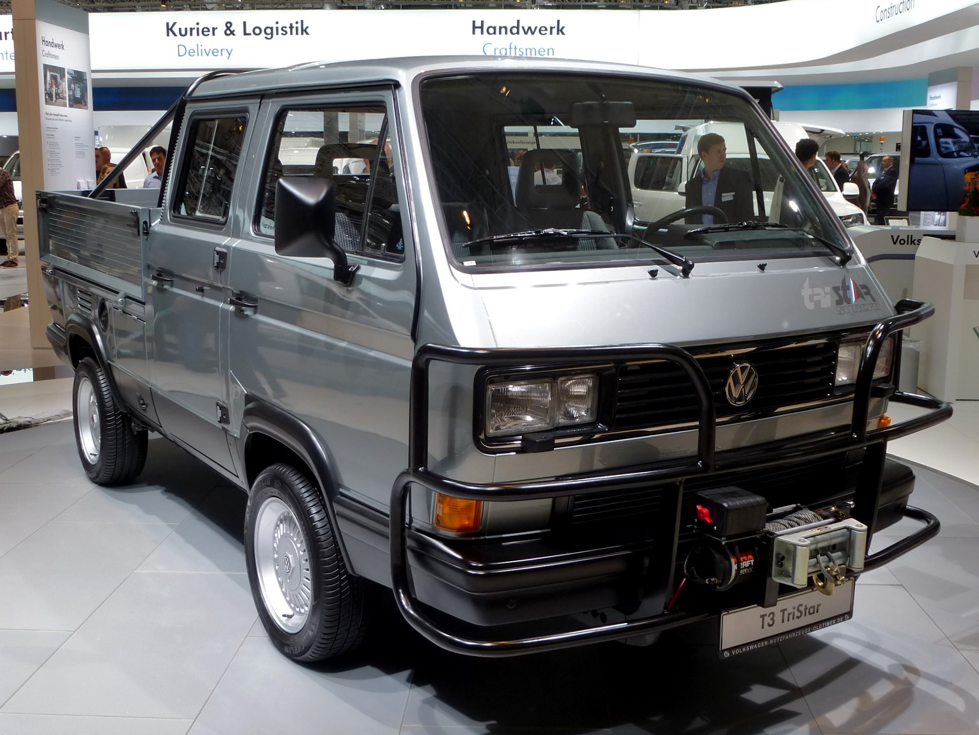 VW T3 TriStar